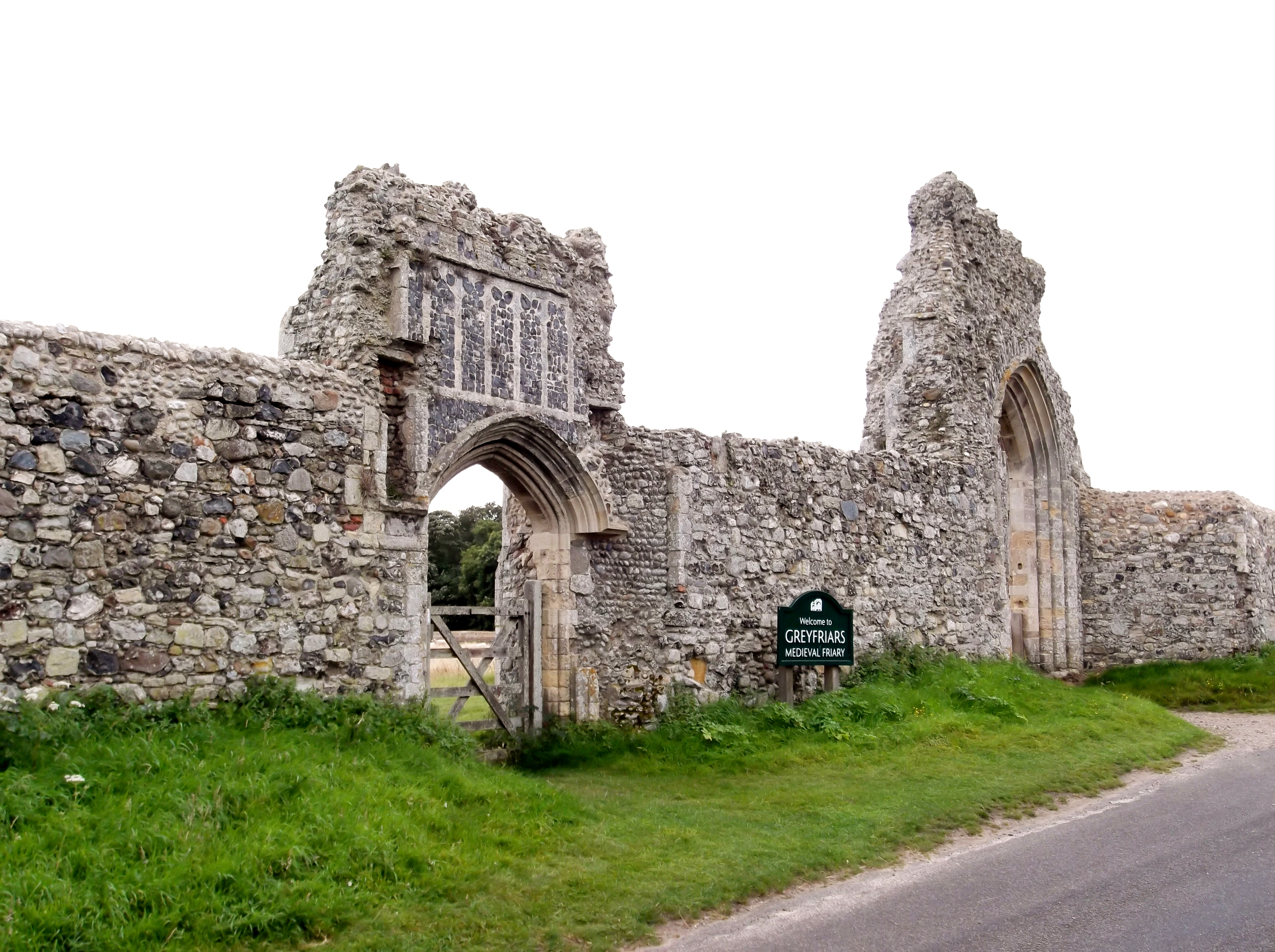 PRuin of the gateway of Greyfriars, Dunwich, Suffolk